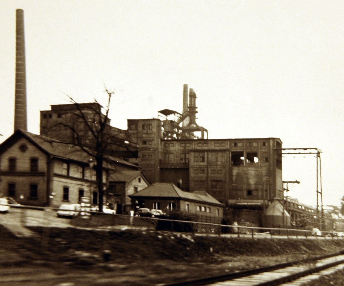 Blast furnace and several buildings of the ironworks Luitpoldhütte, Amberg, Germany.